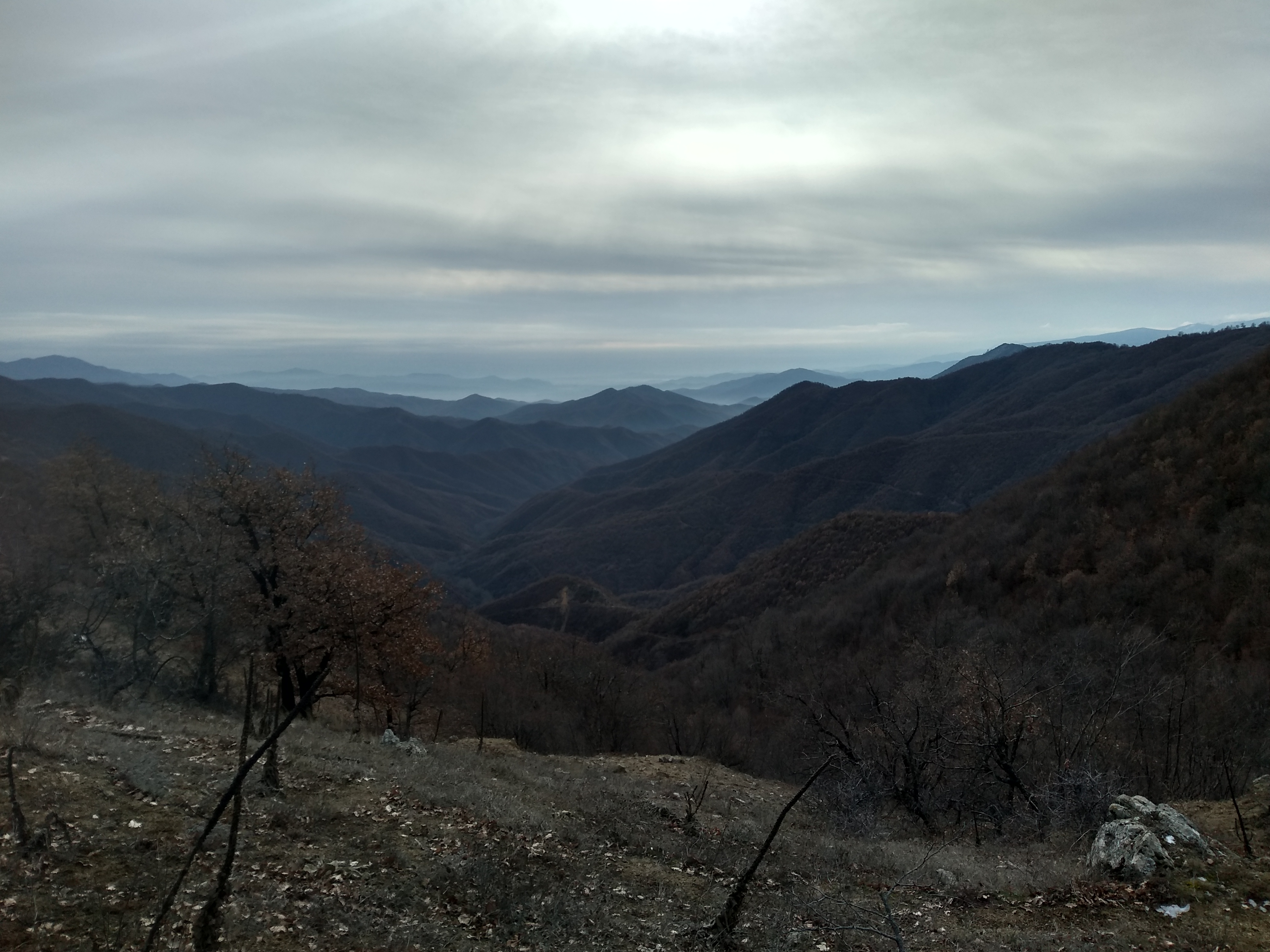 View of Serta mountain in central - eastern part of Macedonia